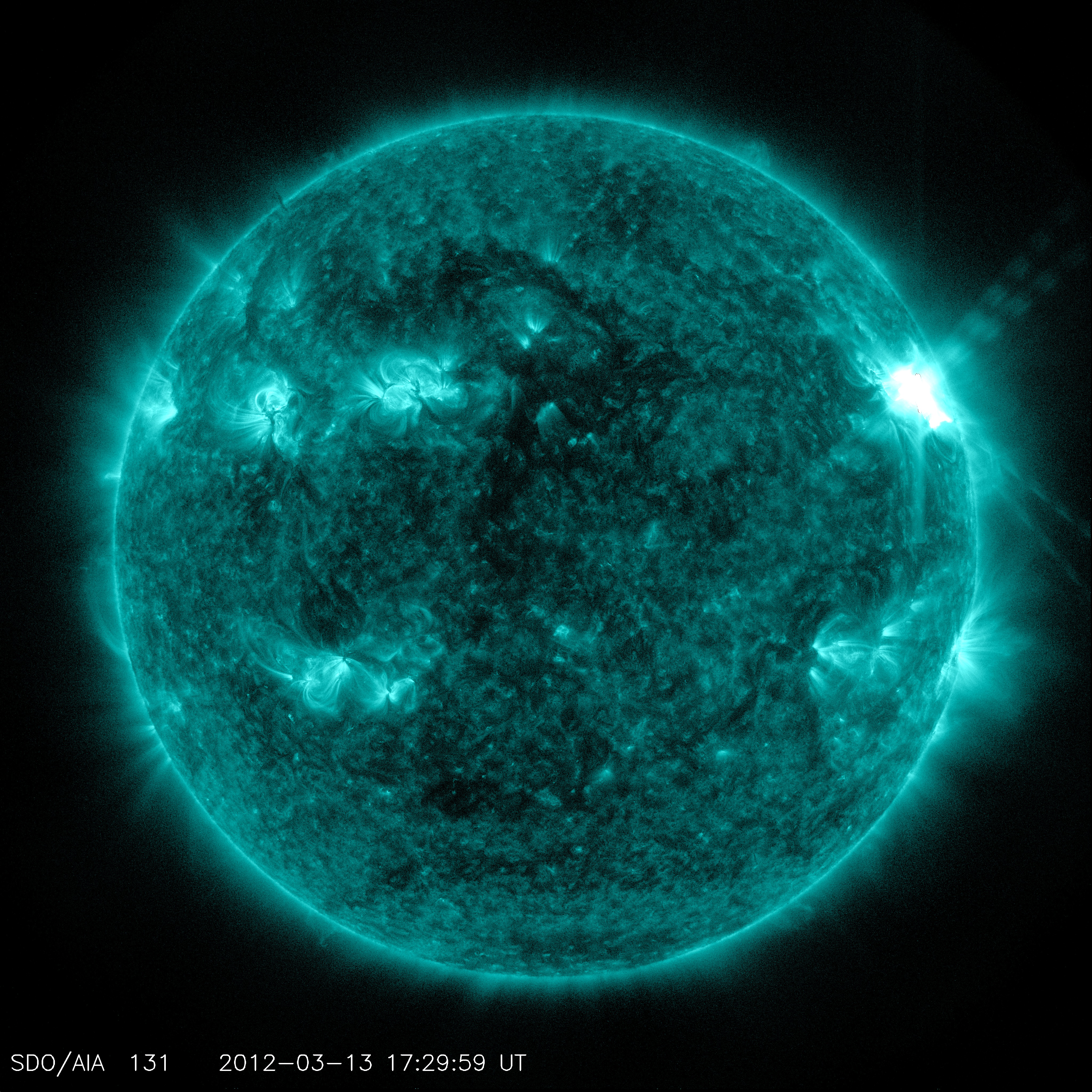 NASA's Solar Dynamics Observatory (SDO) captured this image of an M7.9 class flare on March 13, 2012 at 1:29 p.m. EDT. It is shown here in the 131 Angstrom wavelength, a wavelength particularly good for seeing solar flares and a wavelength that is typically colorized in teal. The flare peaked at 1:41 p.m. EDT. It was from the same active region, No. 1429, that produced flares and coronal mass ejections the entire week. The region has been moving across the face of the sun since March 2, and will soon rotate out of Earth view. A solar flare is an intense burst of radiation coming from the release of magnetic energy associated with sunspots. Flares are our solar system’s largest explosive events. They are seen as bright areas on the sun and last from mere minutes to several hours. Scientists classify solar flares according to their x-ray brightness. There are 3 categories: X-, M- and C-class. X-class flares are the largest of these events. M-class flares are medium-sized; they can cause brief radio blackouts that affect Earth's polar regions. Compared to X- and M-class, C-class flares are small with few noticeable consequences on Earth. Image Credit: NASA